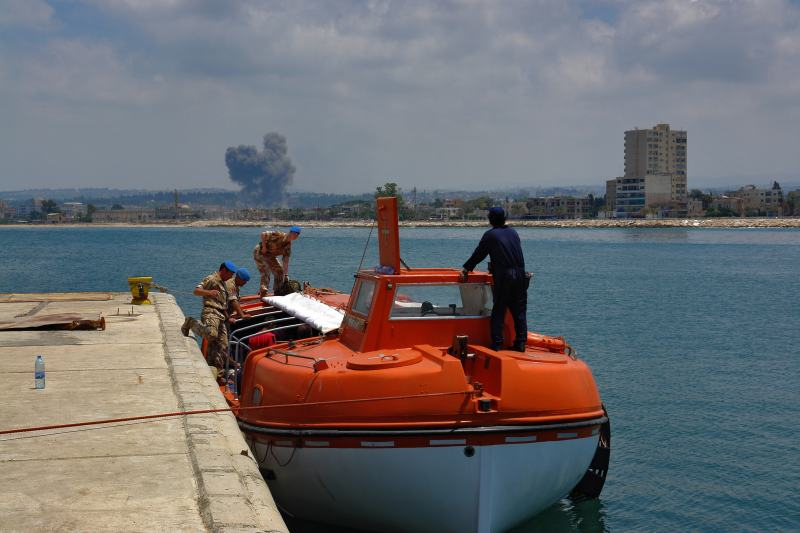 Crew and UN staff from MV SERENADE evacuate refugees from the town of Tyre, Lebanon during 2006 Israel-Lebanon conflict. MV SERENADE sailed from Tyre, Lebanon after a rescue mission with over 900 evacuees from 46 different countries.